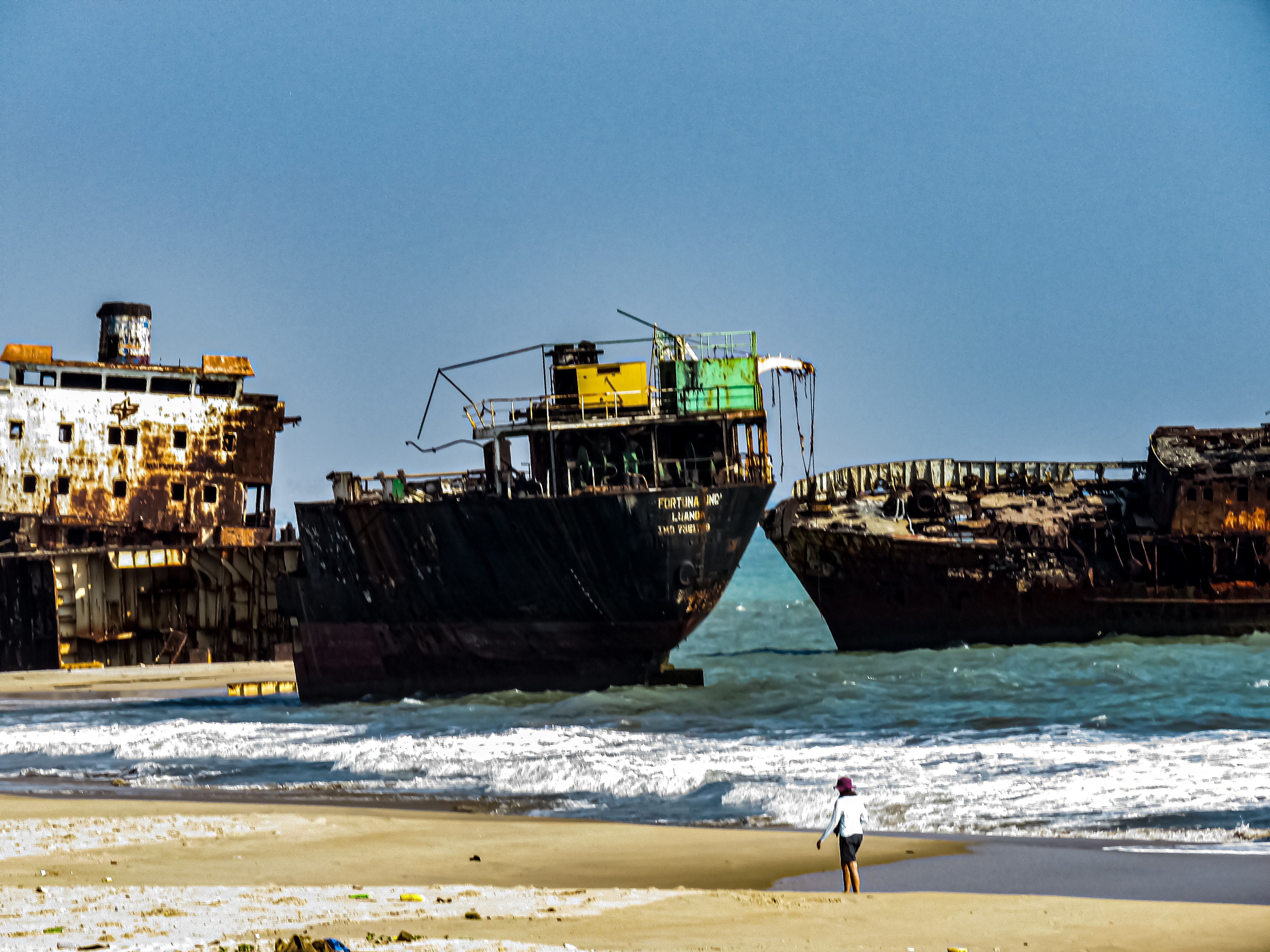 Portuguese stranded deep sea-takers 1975, striped for scrap metal, due to lack of money and food near to Luanda This is an image with the theme "Africa on the Move or Transport" from: Angola